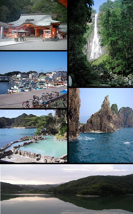 Nachikatsuura montage